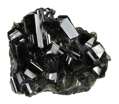 Cassiterite Locality: Viloco Mine (Araca mine), Loayza Province, La Paz Department, Bolivia (Locality at ) Size: 4.1 x 3.7 x 2.1 cm. Bolivia has probably produced more tin than any other country in the world. The great tin mines at Viloco (sometimes called Araca) have produced some of the most magnificent Cassiterite specimens extant. This particular specimen consists of several fine, sharp, lustrous, mostly black, cyclic twinned crystals. The largest crystal measures 1.5 cm long.